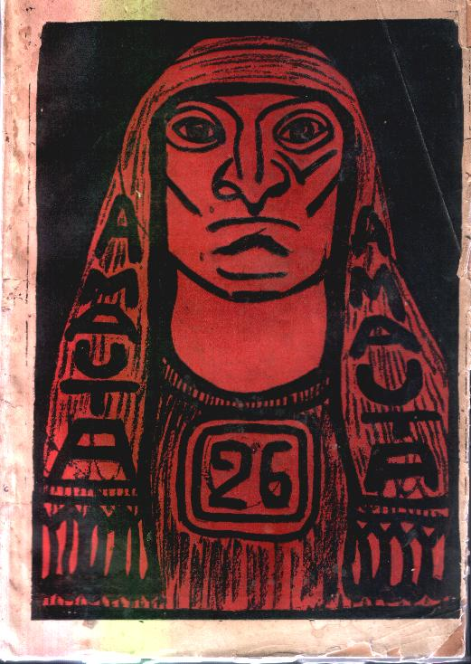 The cover of the magazine Amauta #26 from september 1929